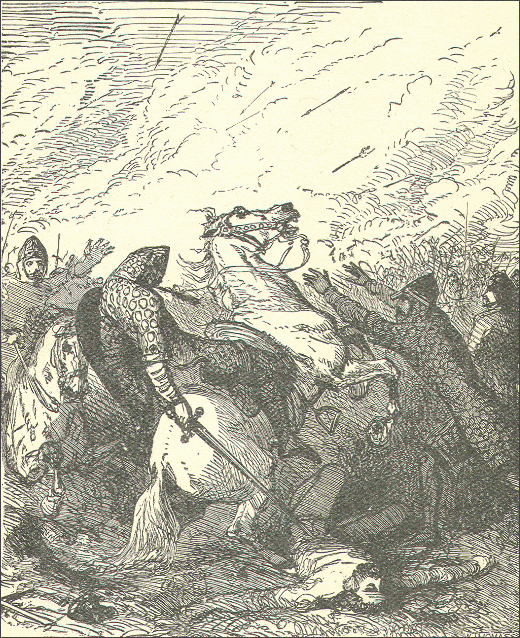 King Harold falls at Hastings, killed by an arrow in his eye (according to the traditional version).